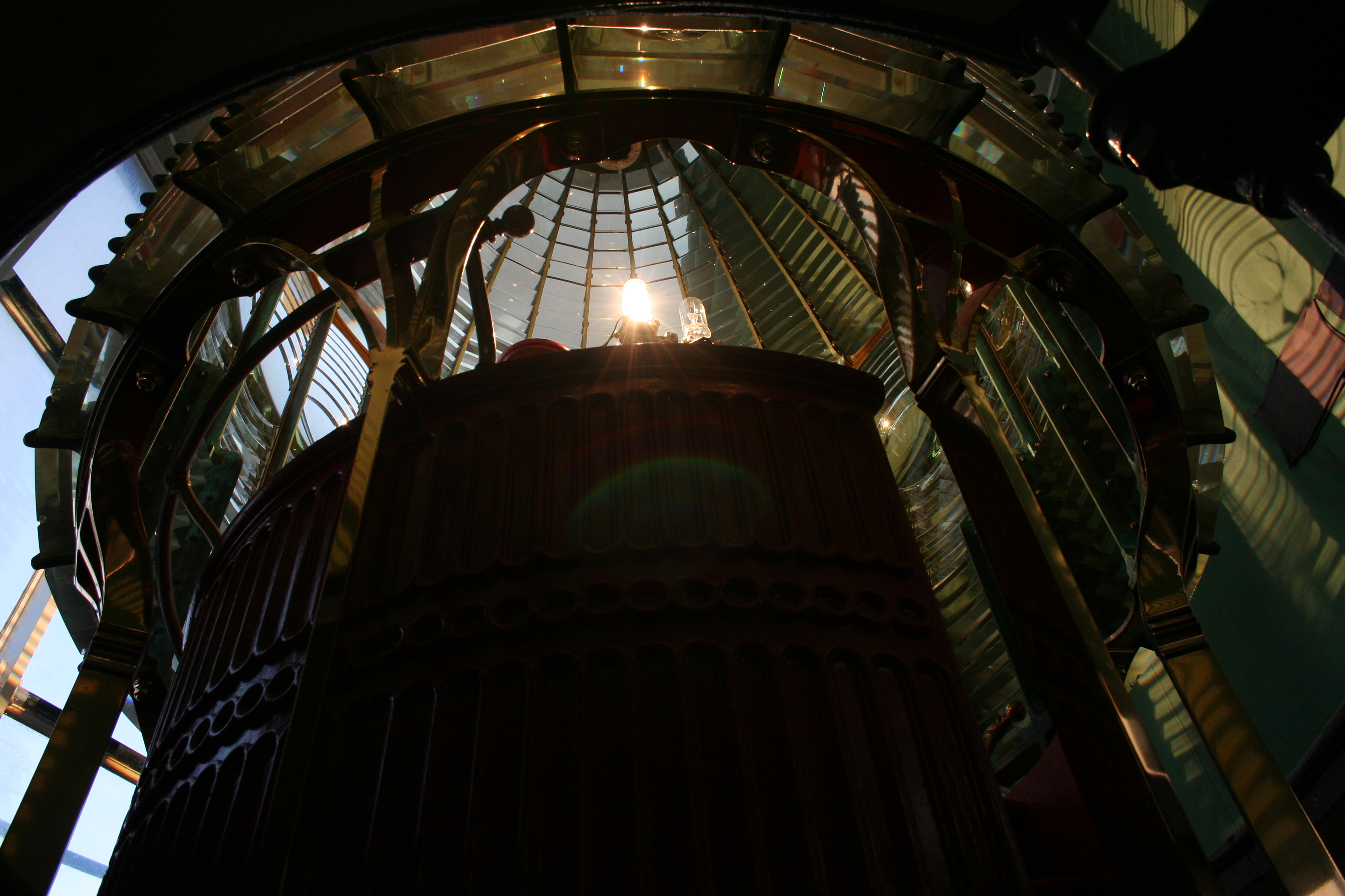 optical system of the Point Reyes lighthouse (California, USA).